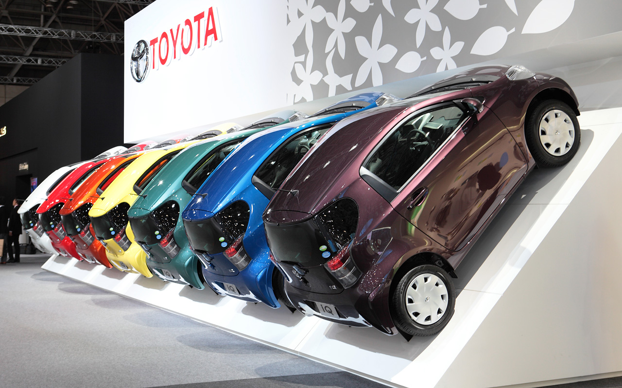 Toyota iQ at 2009 Tokyo Motor Show.